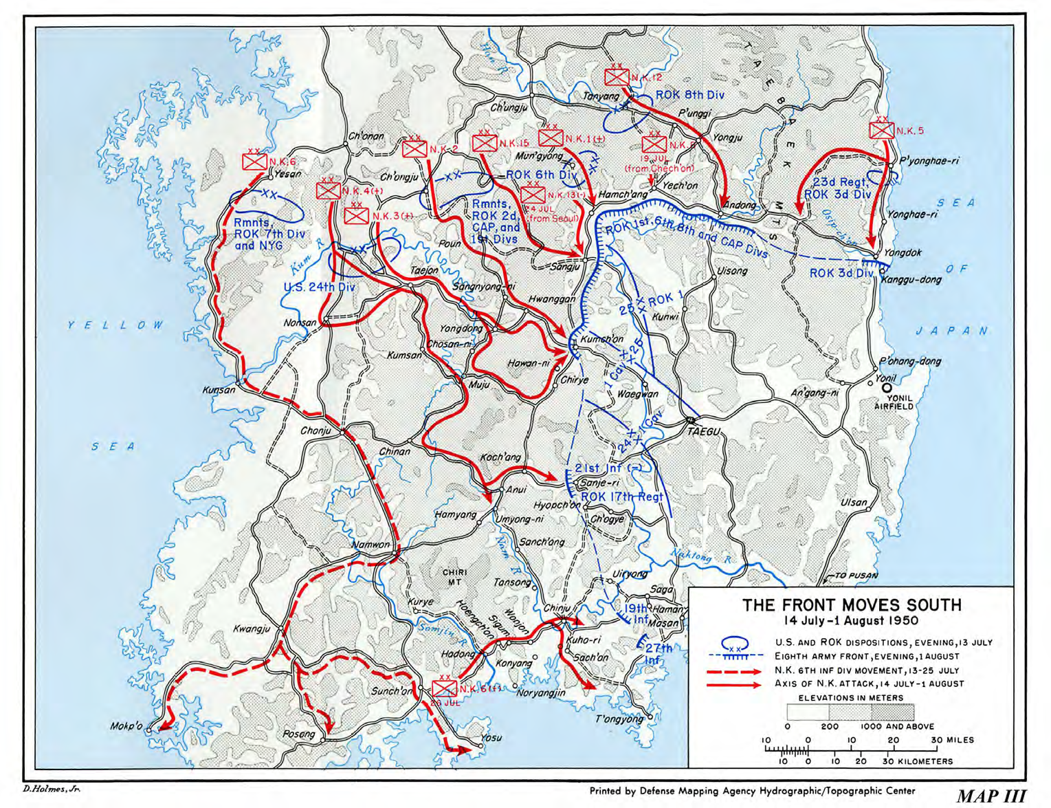 The North Korean Offensive, 14 July - 1 August 1950.